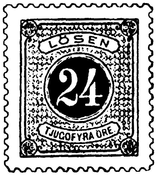 Swedish post office stamp (portomärke, lösenmärke) for delivered letters with insufficient postage.